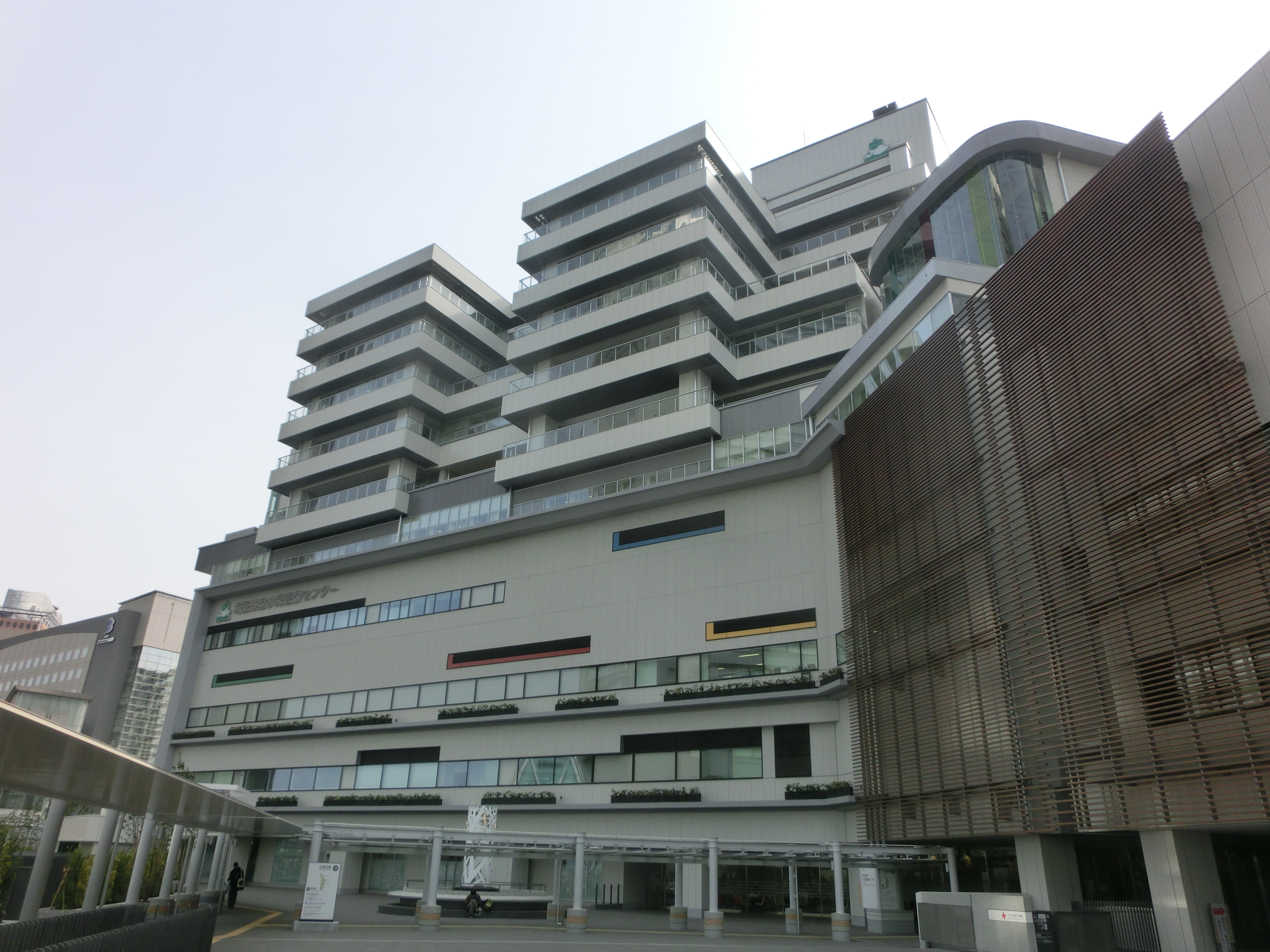 Saitama Children's Medical Center